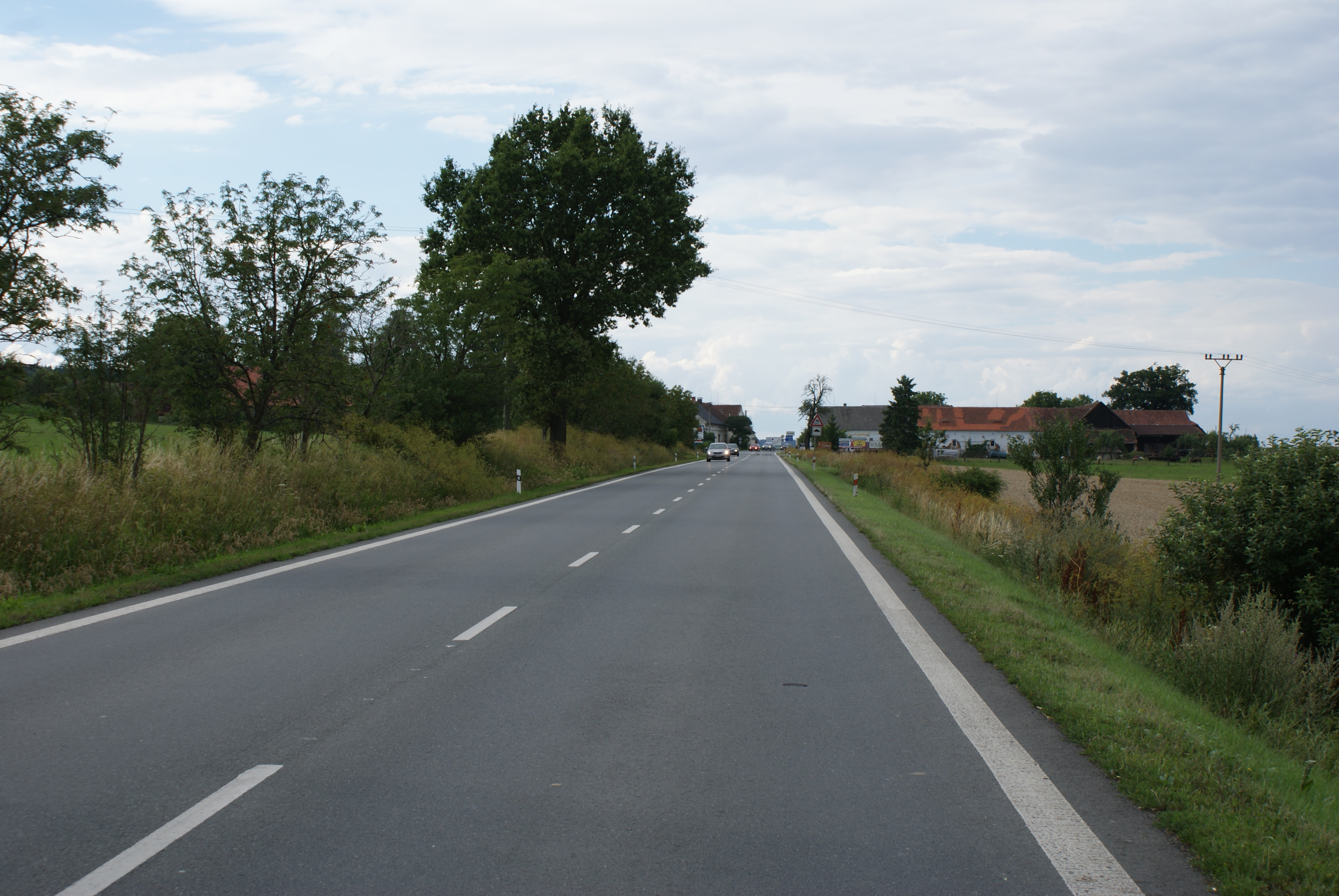 Kotousov, a village in Plzeň-South District, Czech Rep., a distant view.